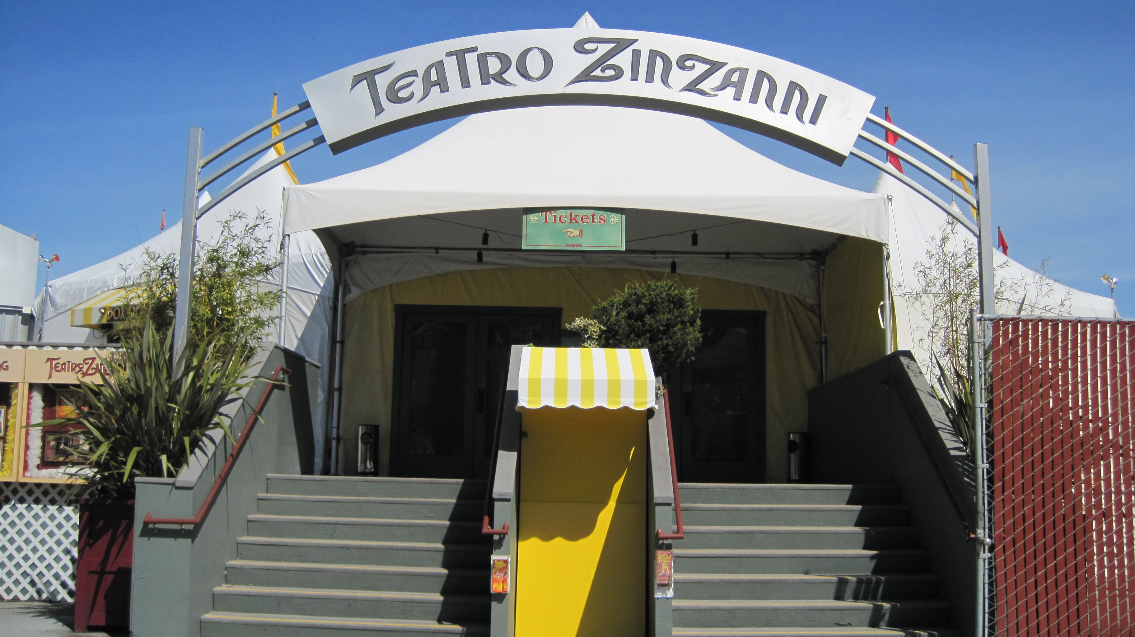 The main entance to Teatro ZinZanni in San Francisco, California.